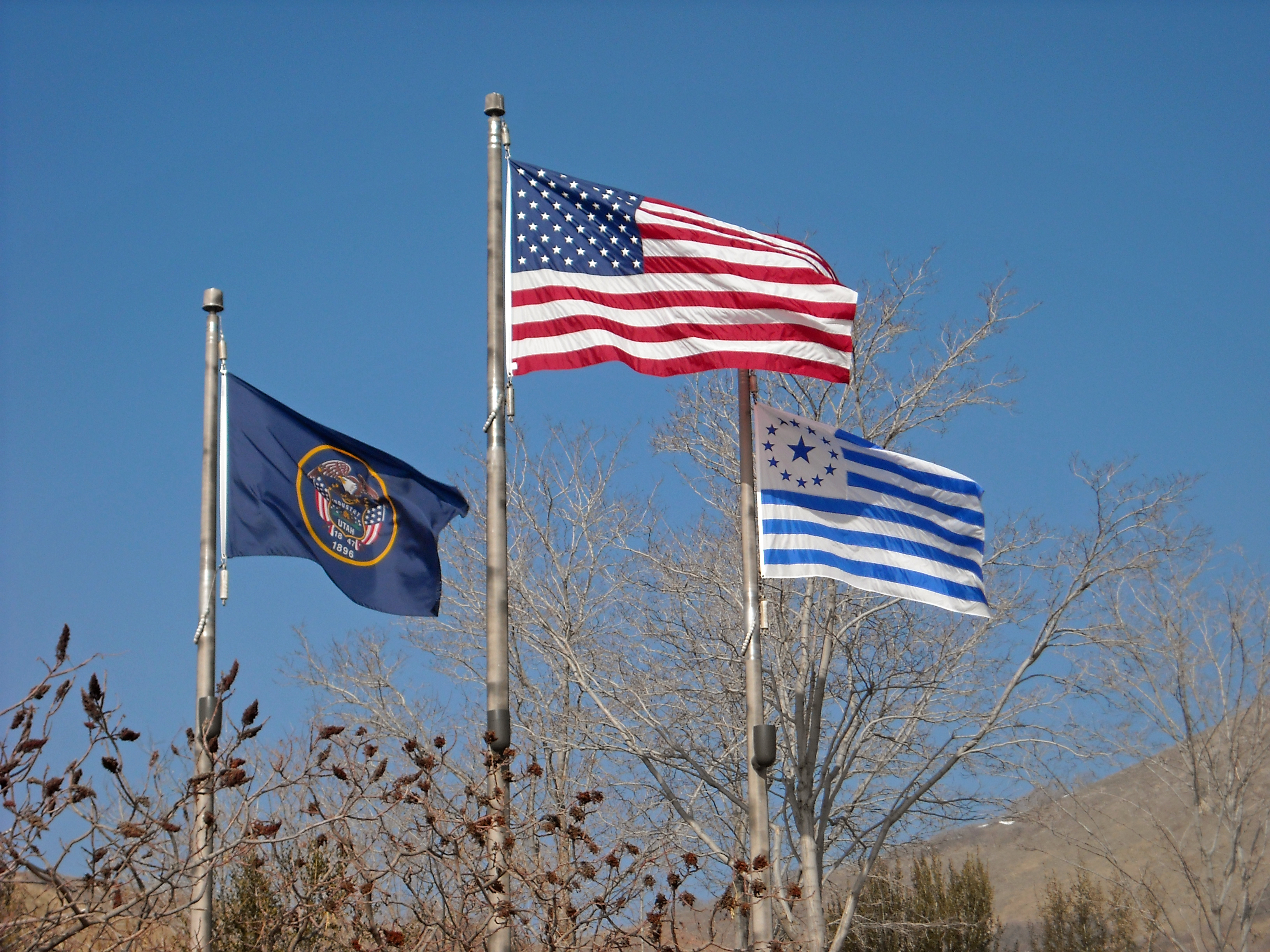 U.S. flag, Utah State flag, and "Ensign flag", at the hiking trail head near Ensign Peak in Salt Lake City, Utah